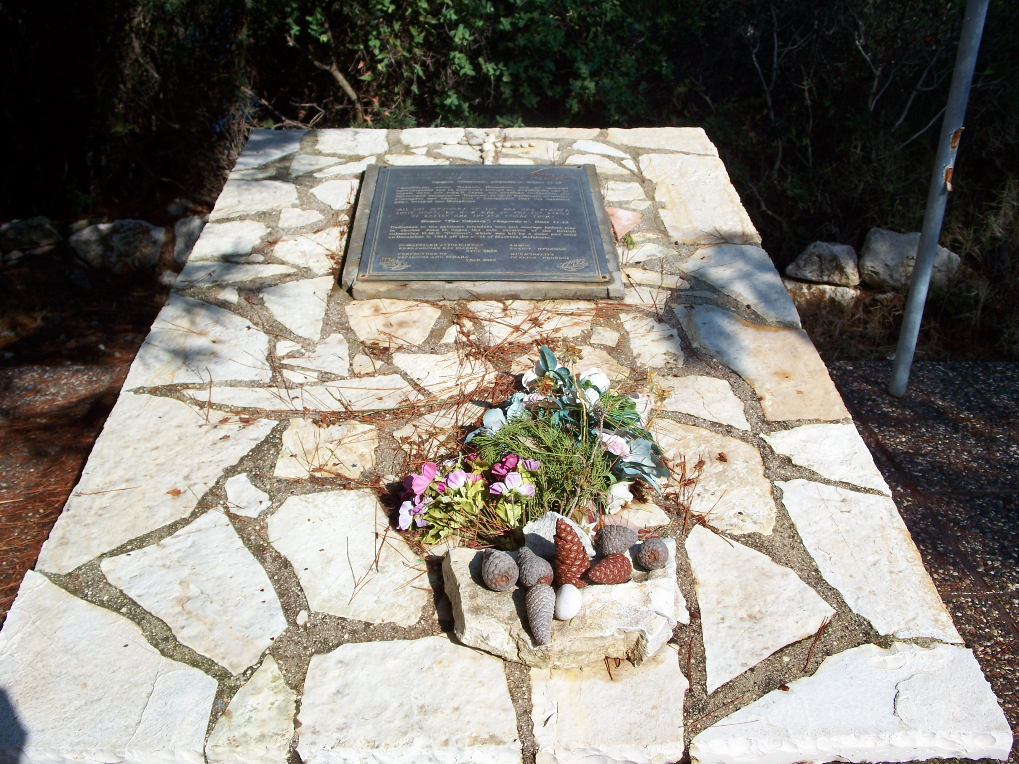 HMS Perseus Memorial, just outside of Poros, Kefalonia